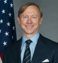 Brian H. Hook, Senior Policy Advisor to the Secretary of State and Director of Policy Planning